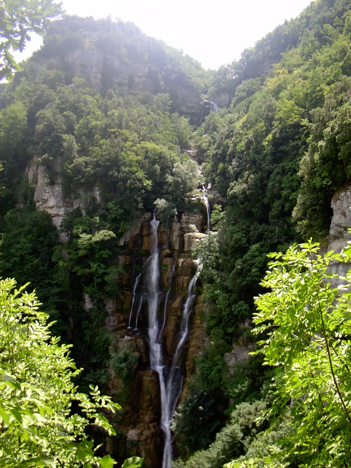 Natural reserve of Rio Verde's fall, Borrello, Italy.